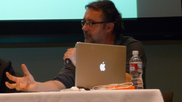 A discussion panel about the works of Walt Stanchfield at Comicon